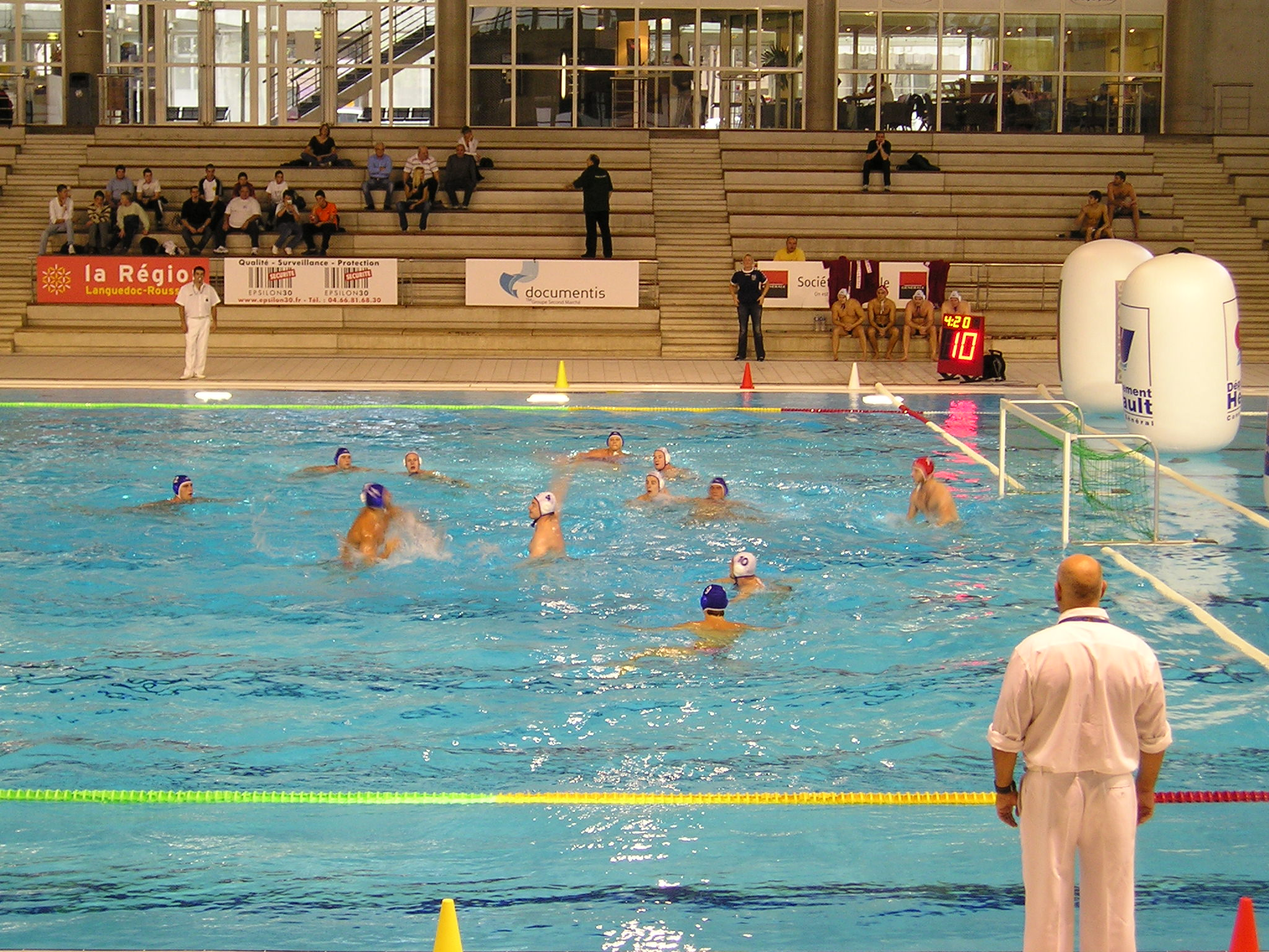 Montpellier, LEN Trophy first round, Odense vs. Bucarest, third period. The Dinamo Bucharest players at the offensive. The ball player (#11, Andrei Valeriu Georgescu) is fainting a shoot (ball in the water at his left arm). Referess: Chris Freebury Chris (foreground), Antonio Suarez Medina (background).